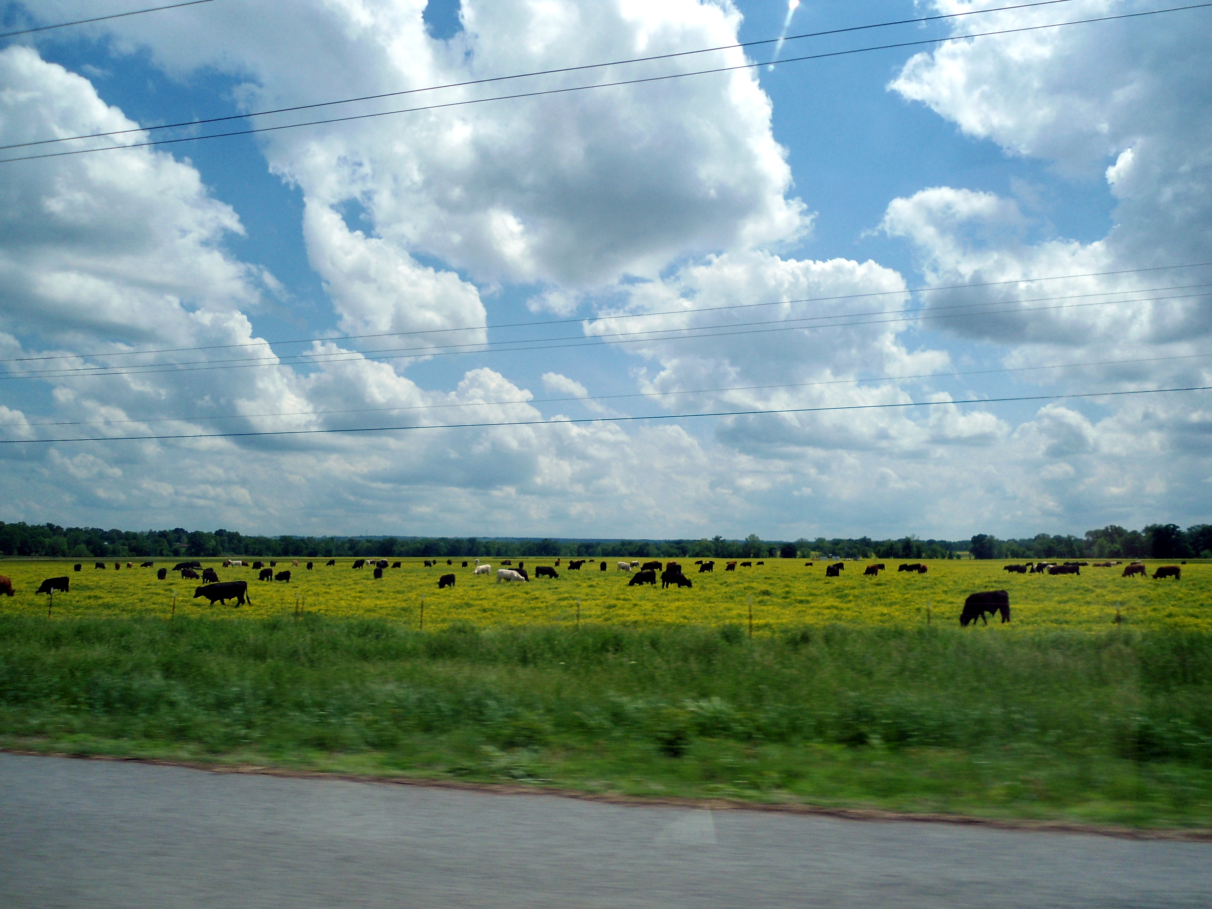 Cows in flowered pasture, near Mulberry, AR. On US 64 facing south